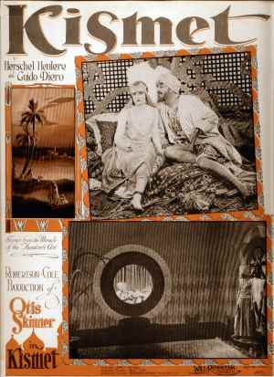 Cover sheet from musical note "Kismet", a piece composed by Guido Deiro, with scenes from the 1920 film of the same name.